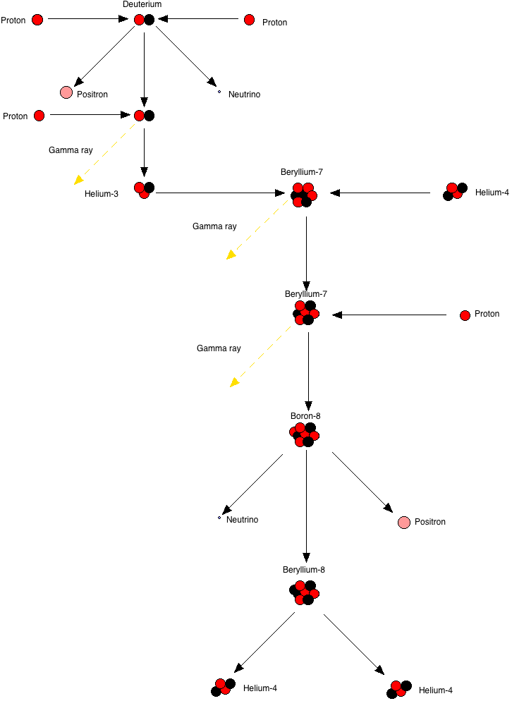 Proton-Proton III chain reaction